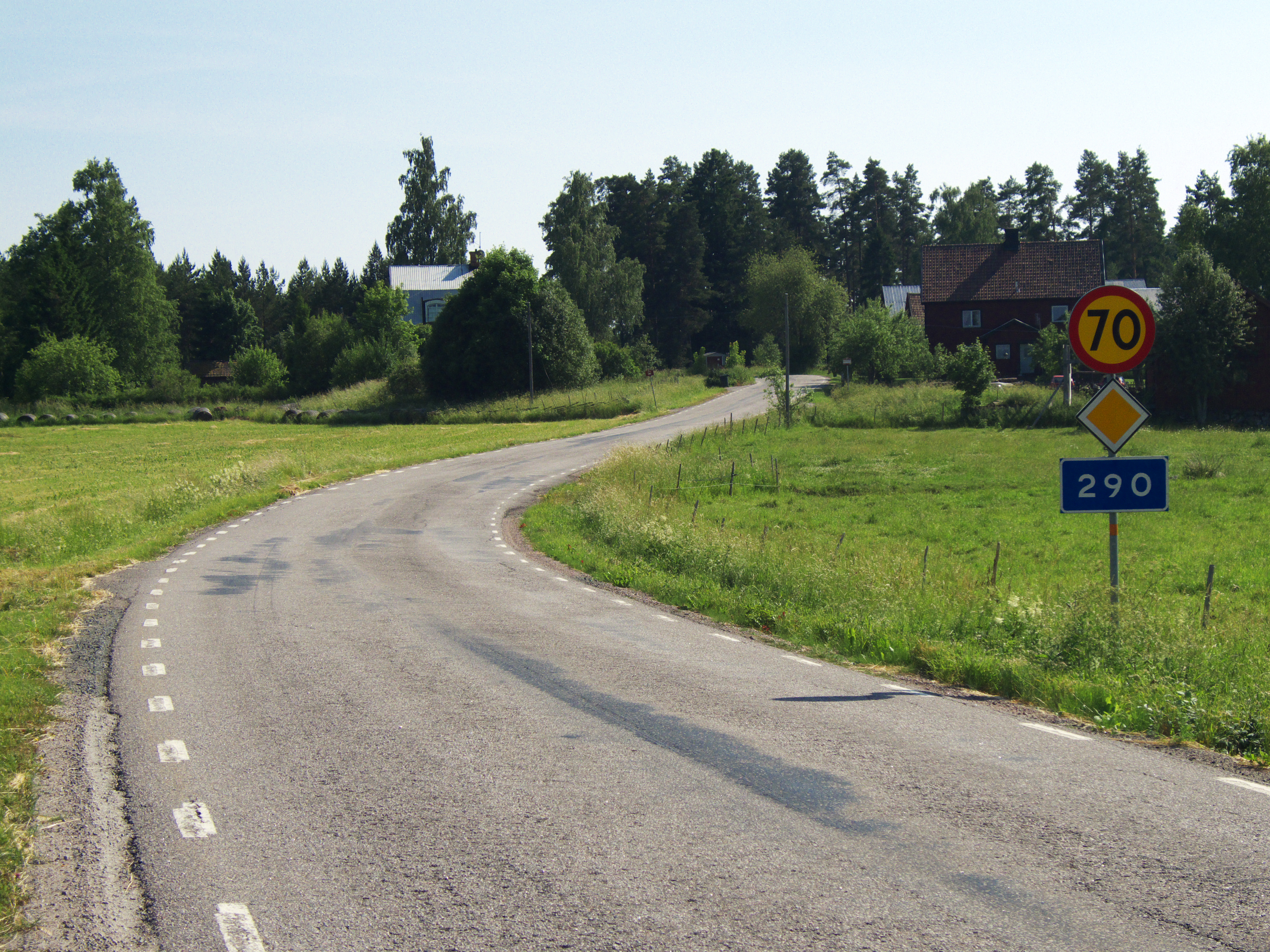 Road 290, five kilometers north of Österbybruk.